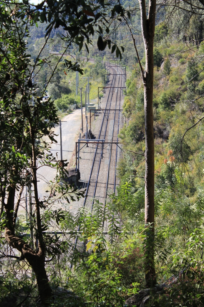 View north from above Woy Woy railway tunnel